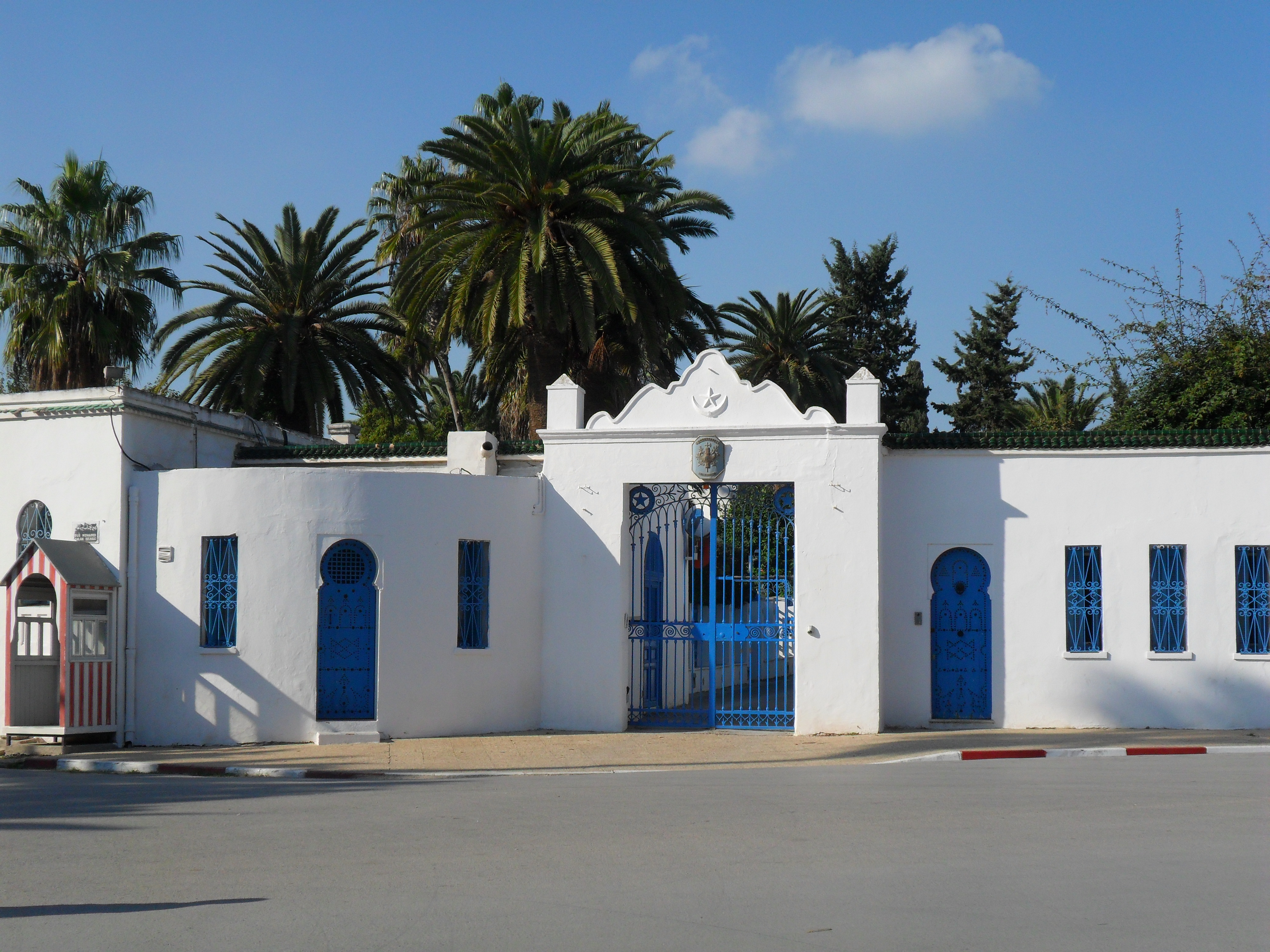 French Ambassador residence entry in Tunisia, "Dar El Kamla", La Marsa